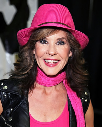 Linda Blair, Los Angeles, CA, on September 16, 2012 - Photo by Glenn Francis of